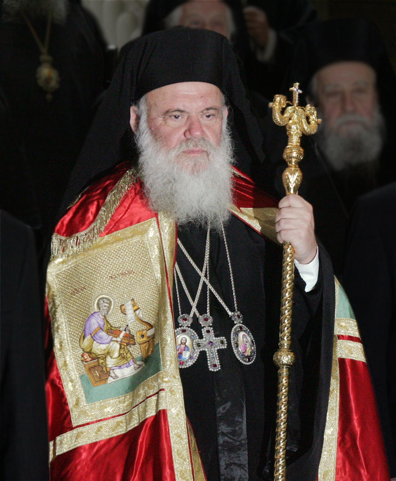 Declaration ceremony of the Archbishop Ieronymos II of Athens, Presidential Palace 2008.